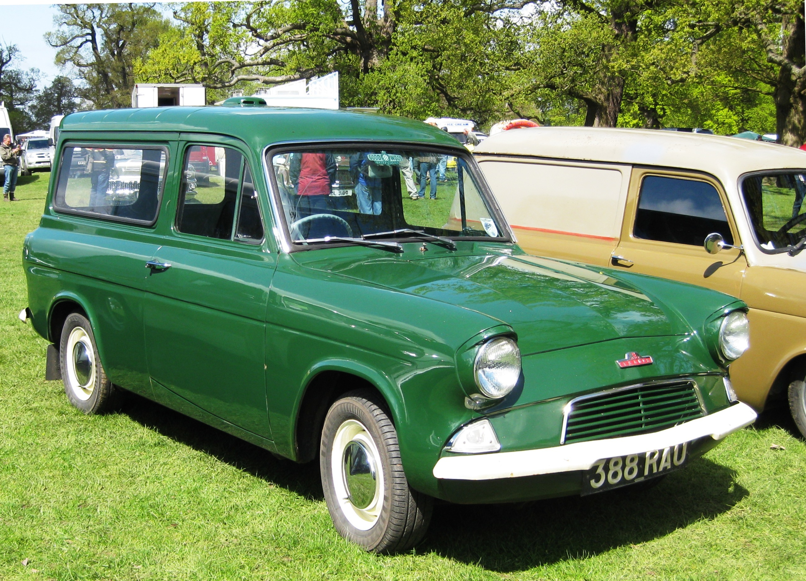 Ford Thames 307E with side windows at the back